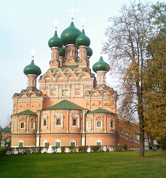 Trinity Church at Ostankino, Moscow, Russia